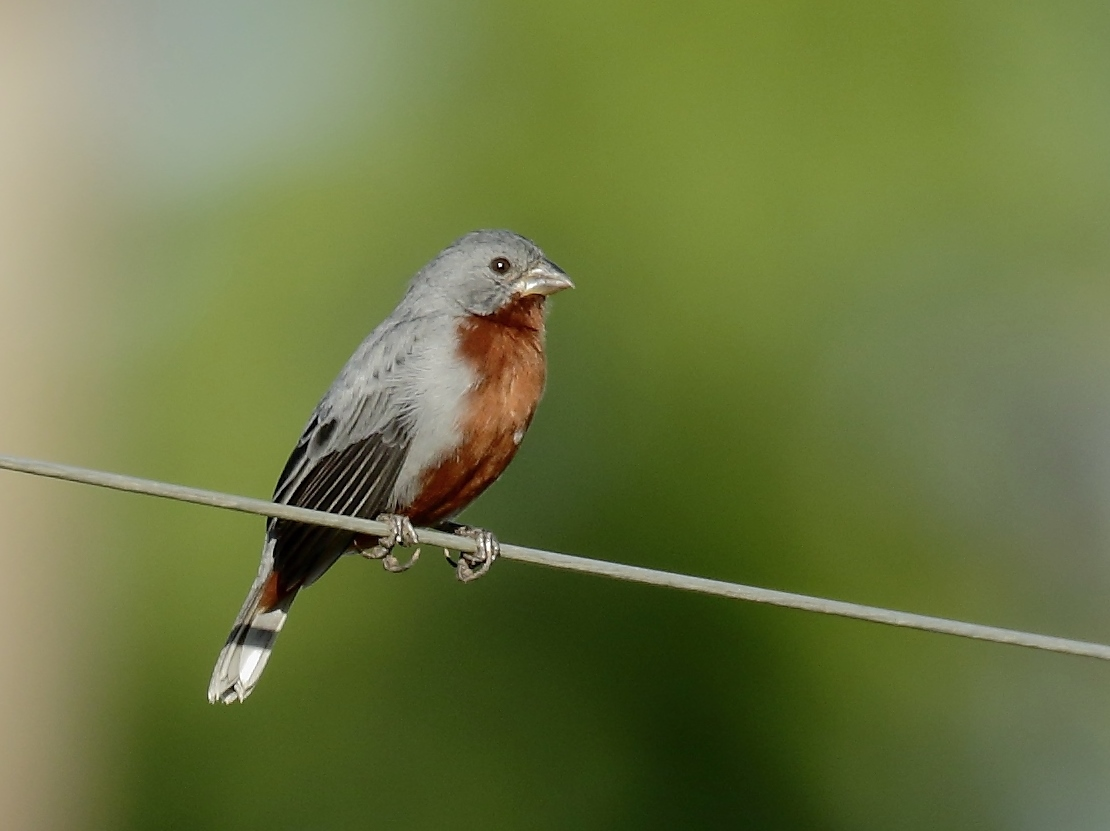 Chestnut-bellied seedeater (male), Rio Branco, Acre, Brazil